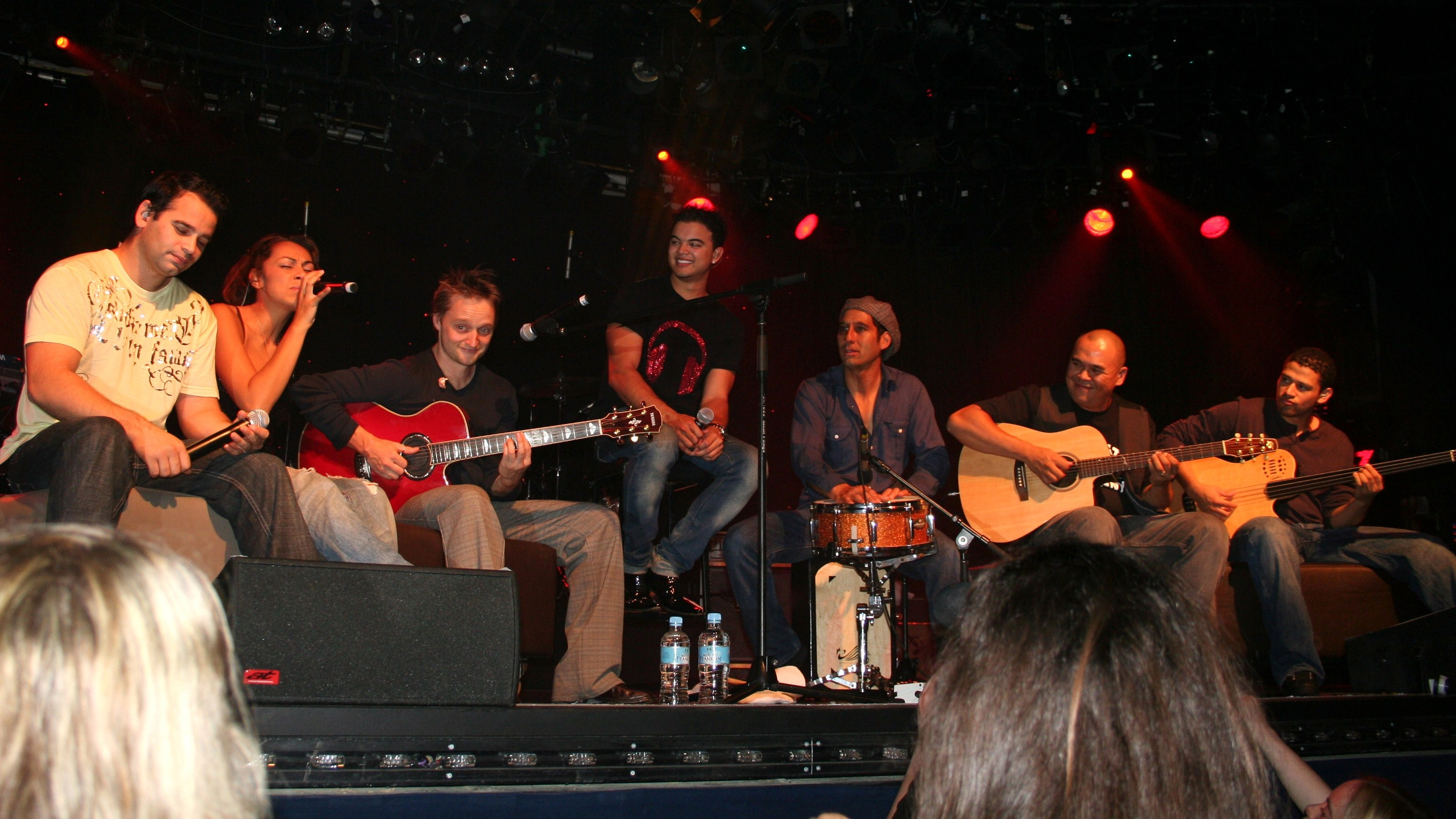 Guy Sebastian toured Closer To The Sun in the Eastern states and South Australia in the early part of 2007. The concerts had a special section where couches were brought on stage.